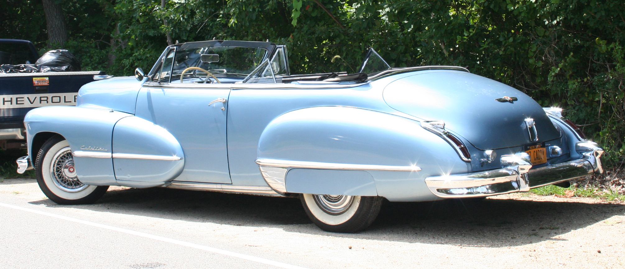 1947 Cadillac Convertible in Springs, NY